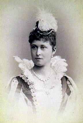 Princess Irene of Hesse and by Rhine during her youth.